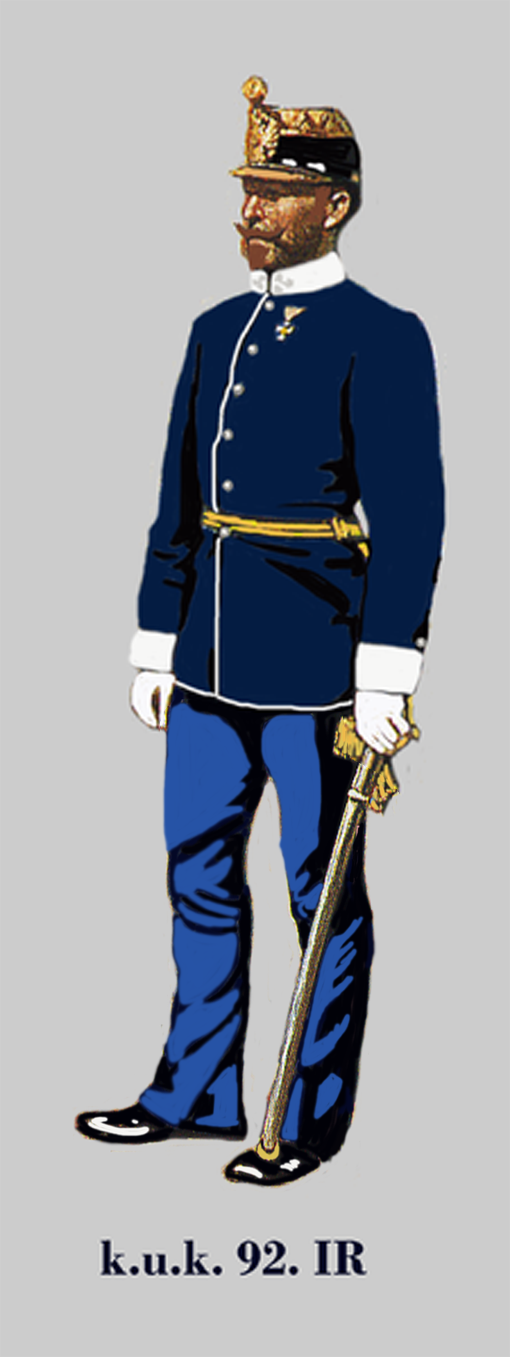 Captain of the Austria-Hungarian (k.u.k.). 92nd german Infantry Regiment in Parade dress 1914